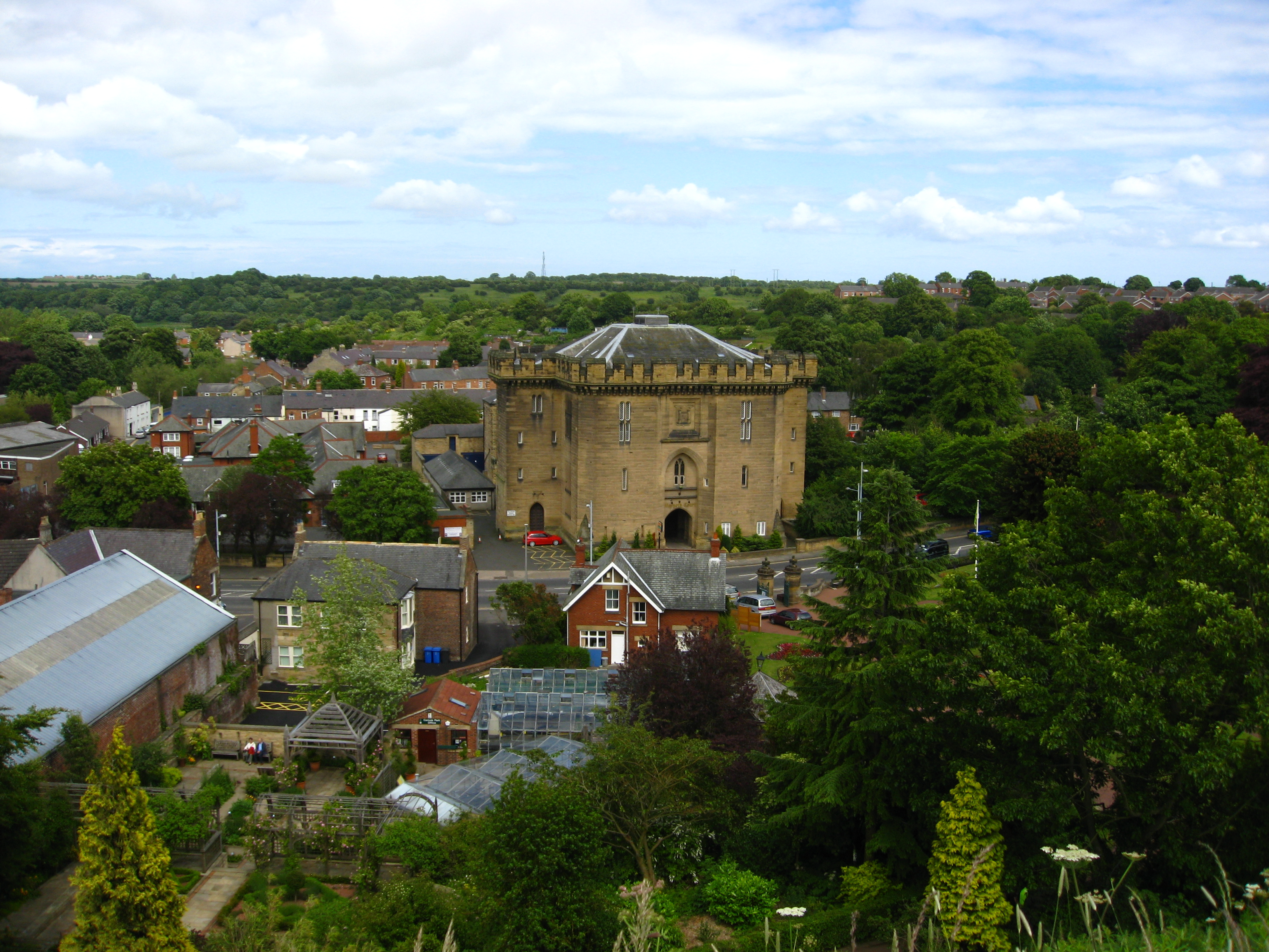 Morpeth Old Gatehouse